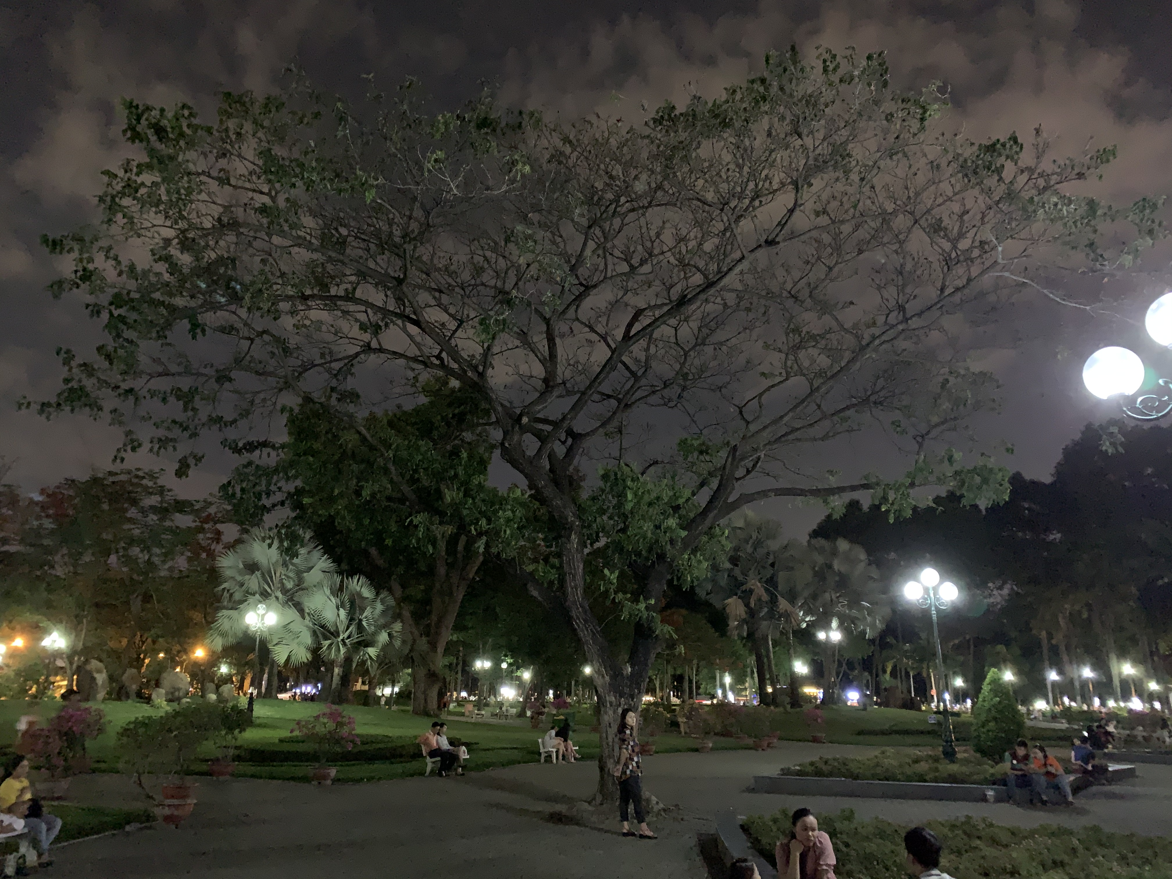 Gia Dinh Park at night